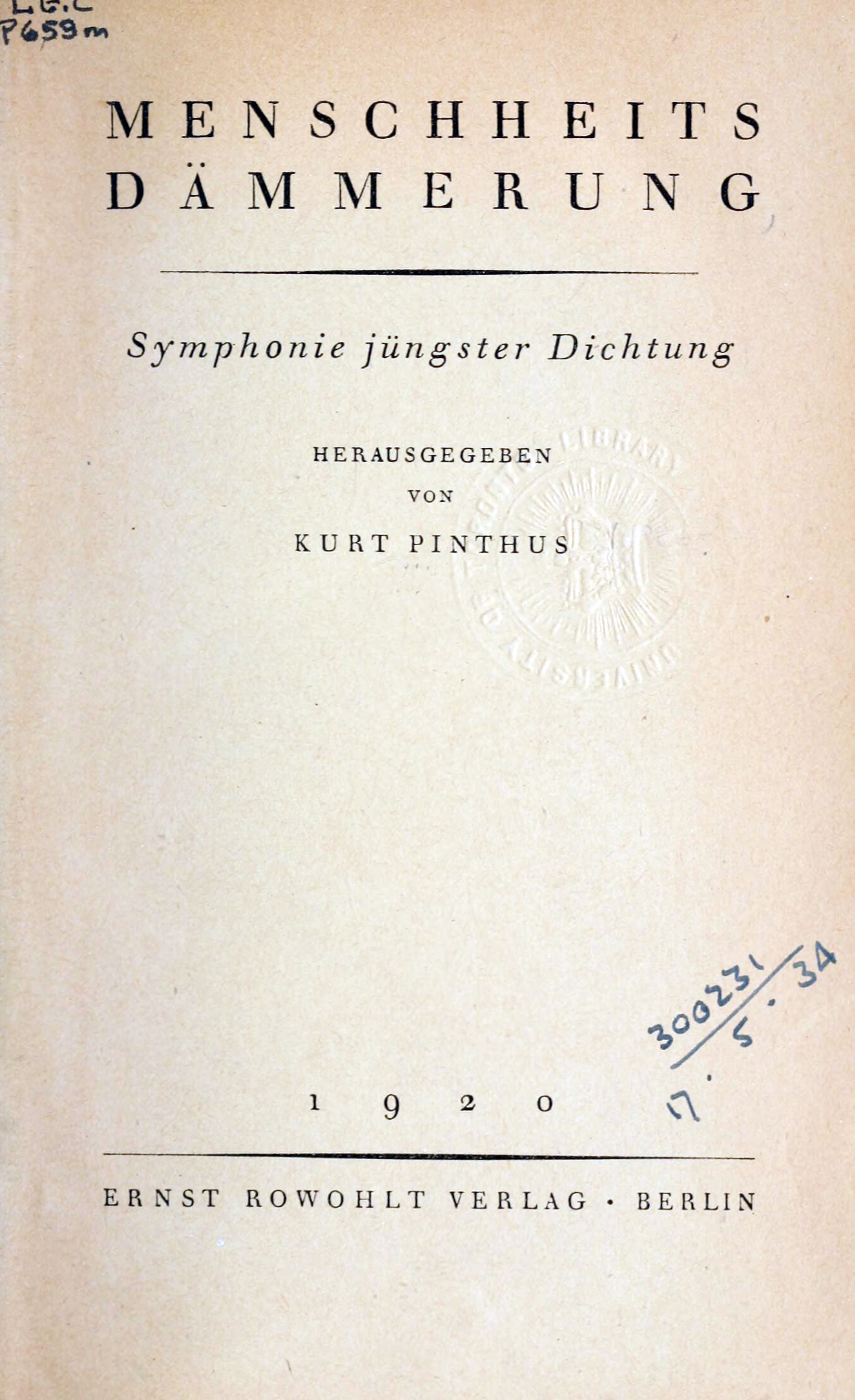 Title page of the original edition of Menschheits Dämmerung, Symphonie jüngster Dichtung by Kurt Pinthus.